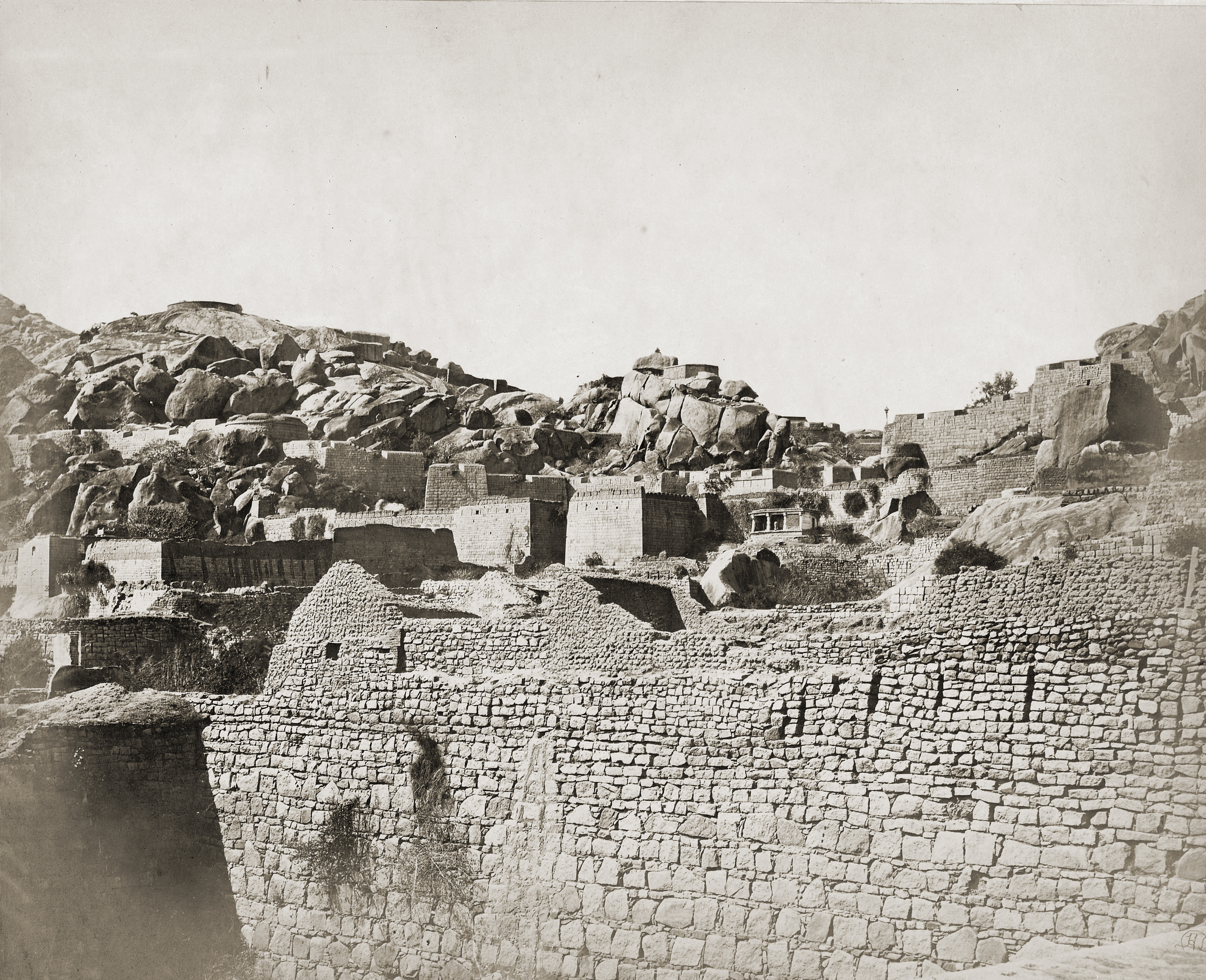 Ramparts of the Fort, Chitradurga